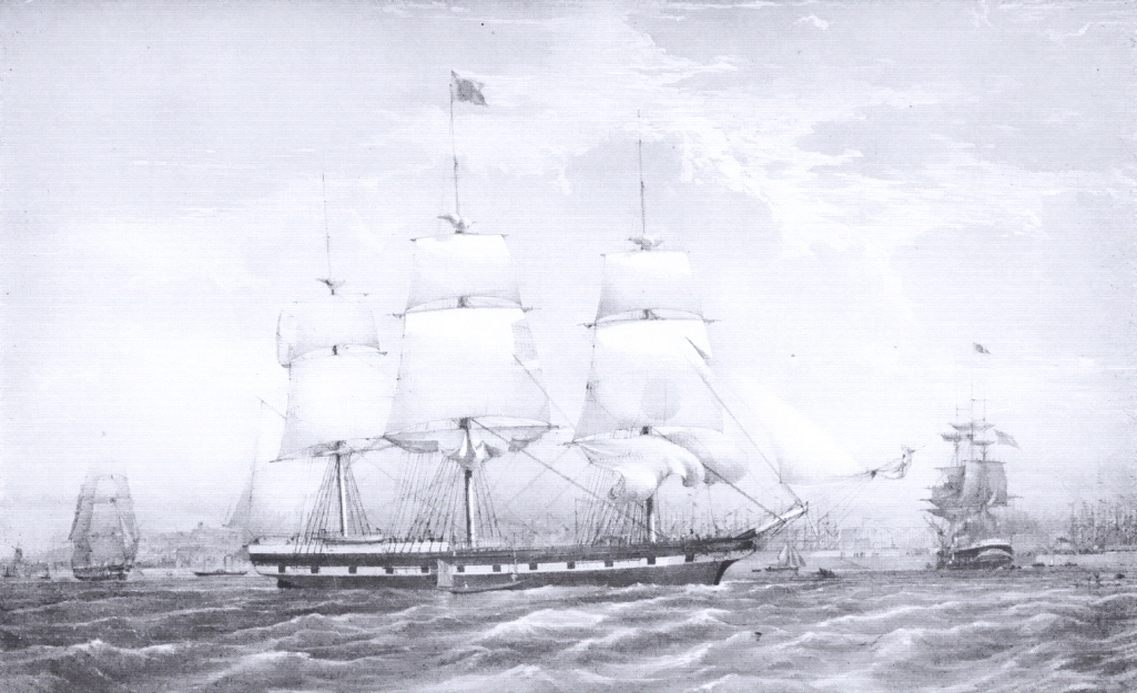 File name = caption YORKSHIRE and page #48